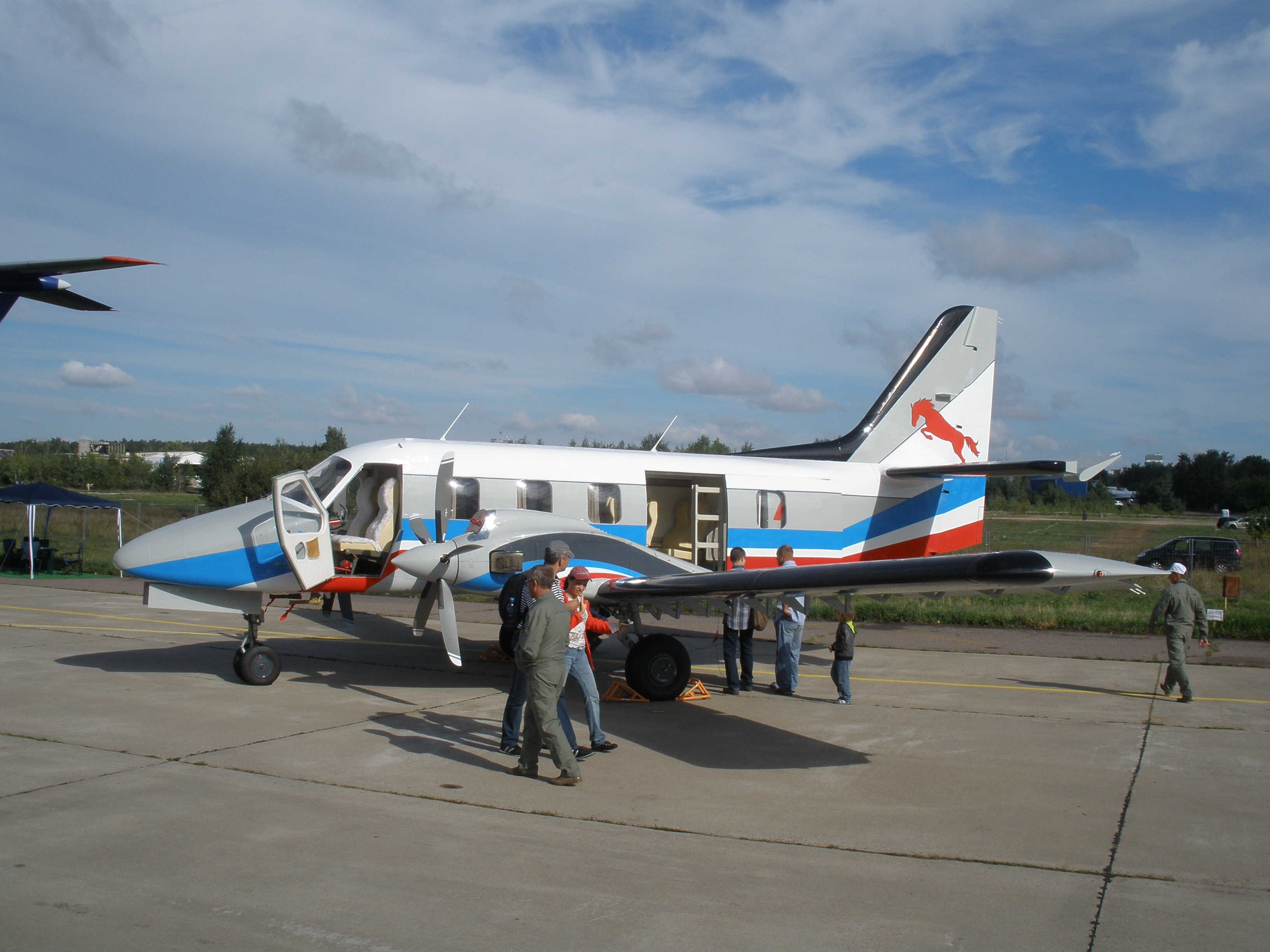 "Rysachok" lightweight multipurpose airplane at MAKS-2011 airshow